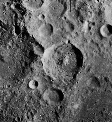 Zond 8 Frame 55